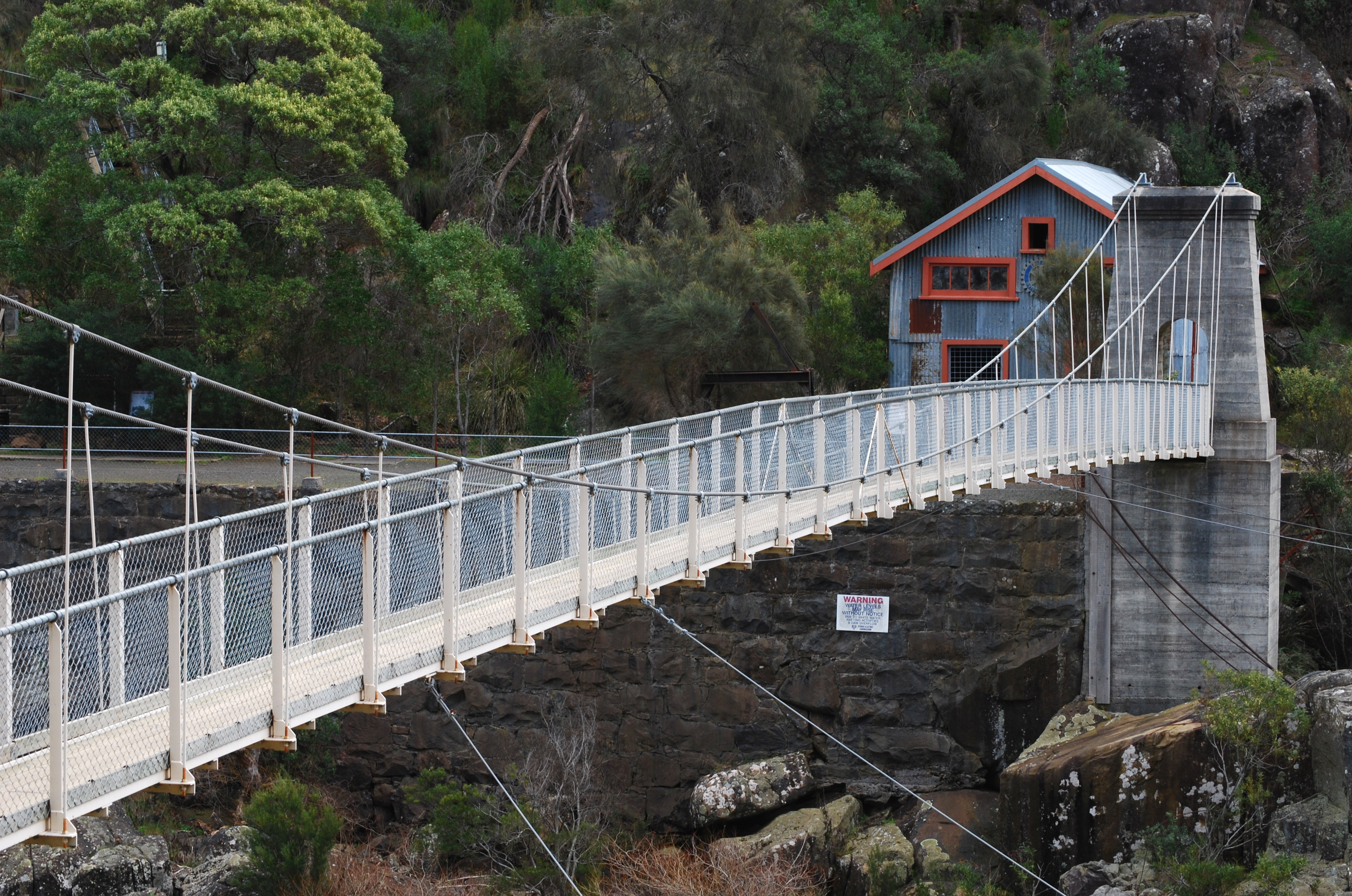 Footbridge to the now closed Duck Reach power station, Launceston, Tasmania, Australia